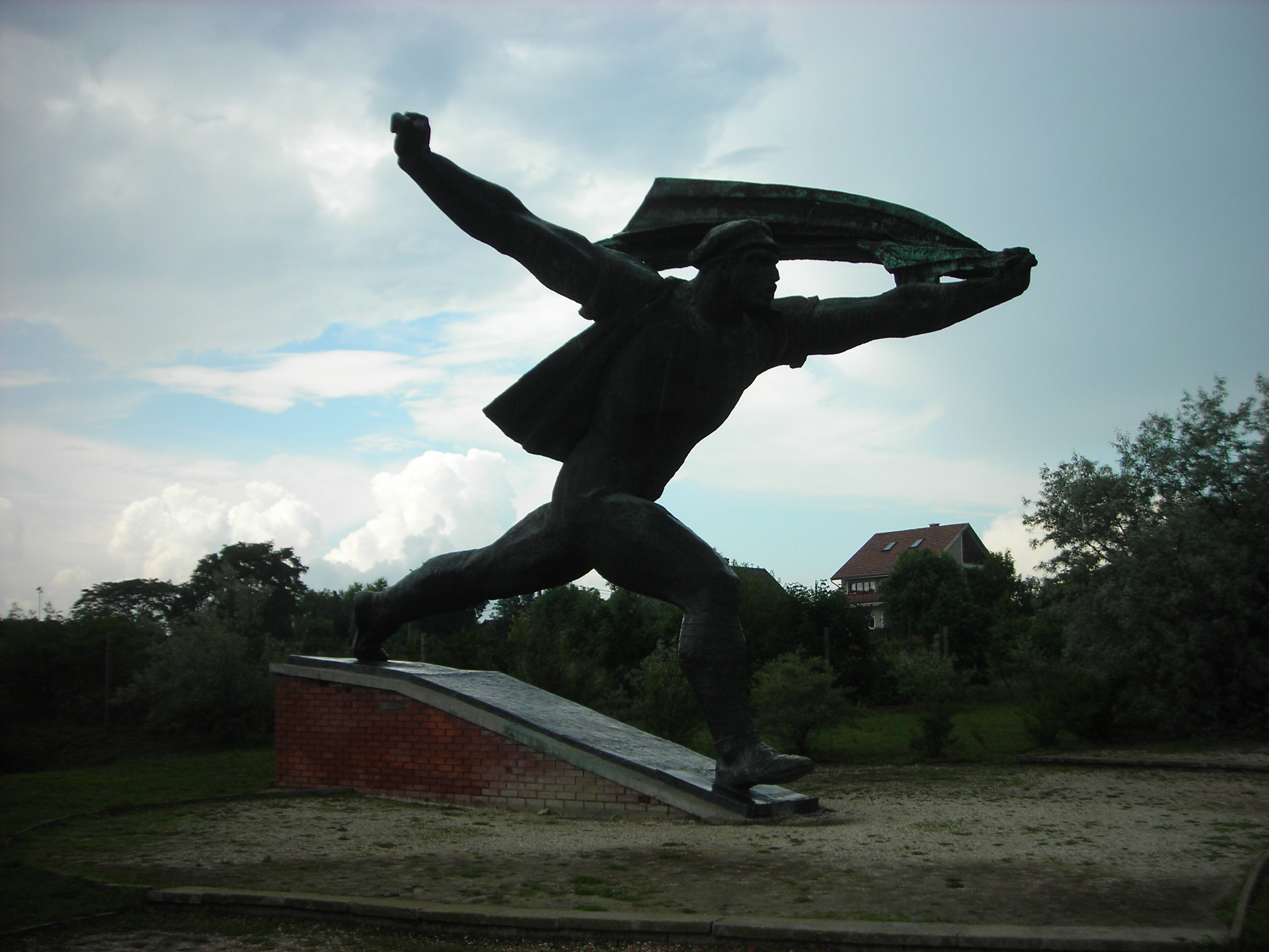 Huge statue of a figure with a flag in Memento Park